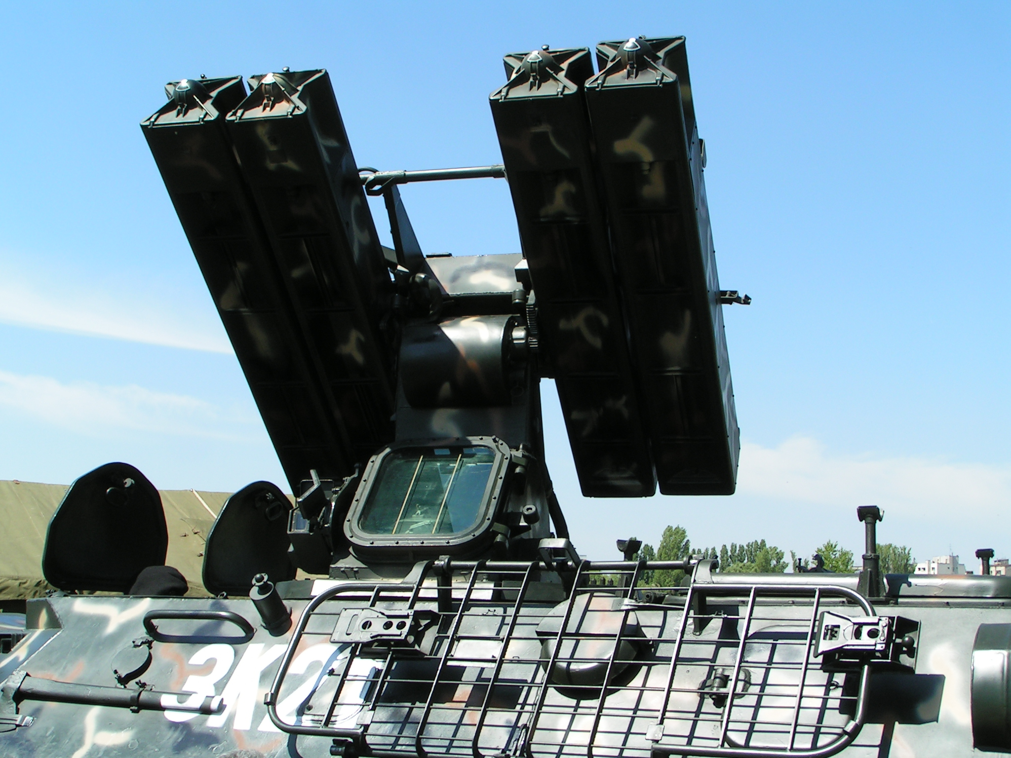 CA-95M1 at Romanian Land Forces Day, 23.04.2007 - The AA Rockets